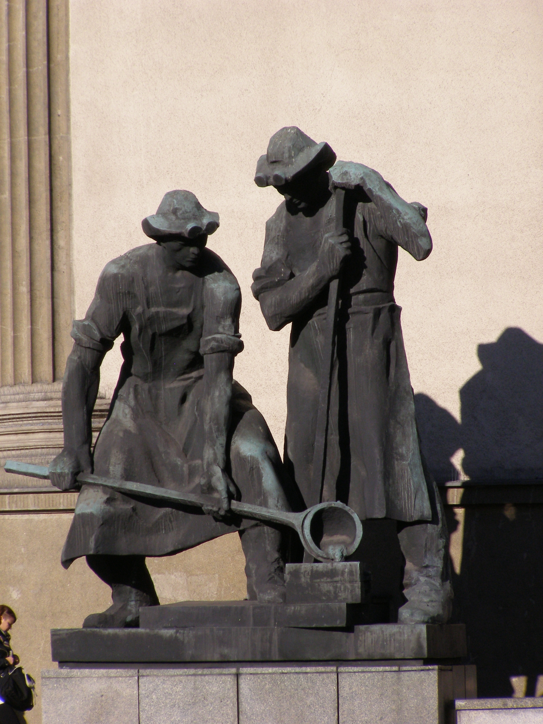 Kraków - AGH University of Science and Technology - steelworkers' statue at the main building